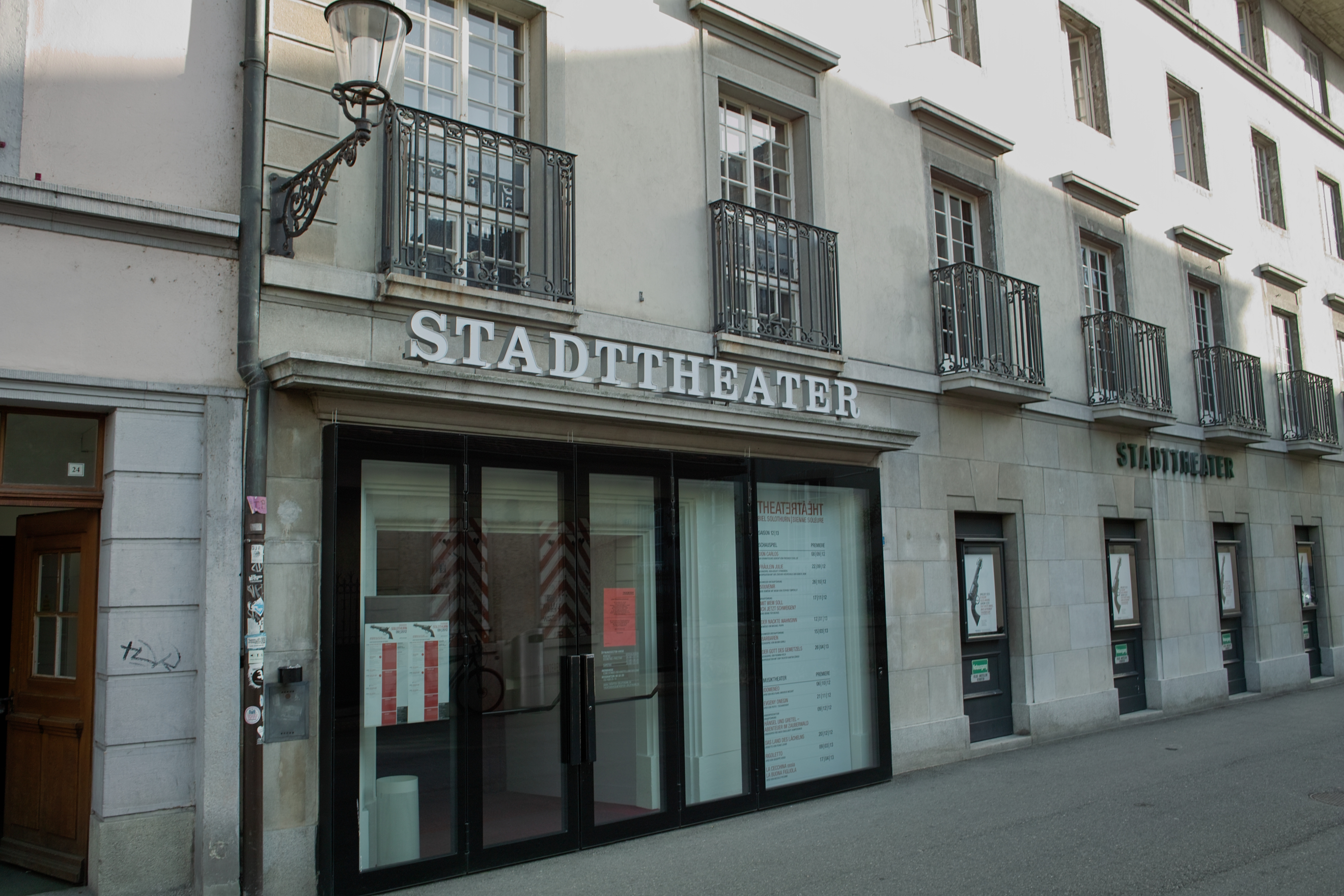 Stadttheater Solothurn (City Theatre).